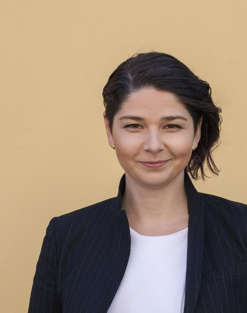 Press Photo Maria Amelie